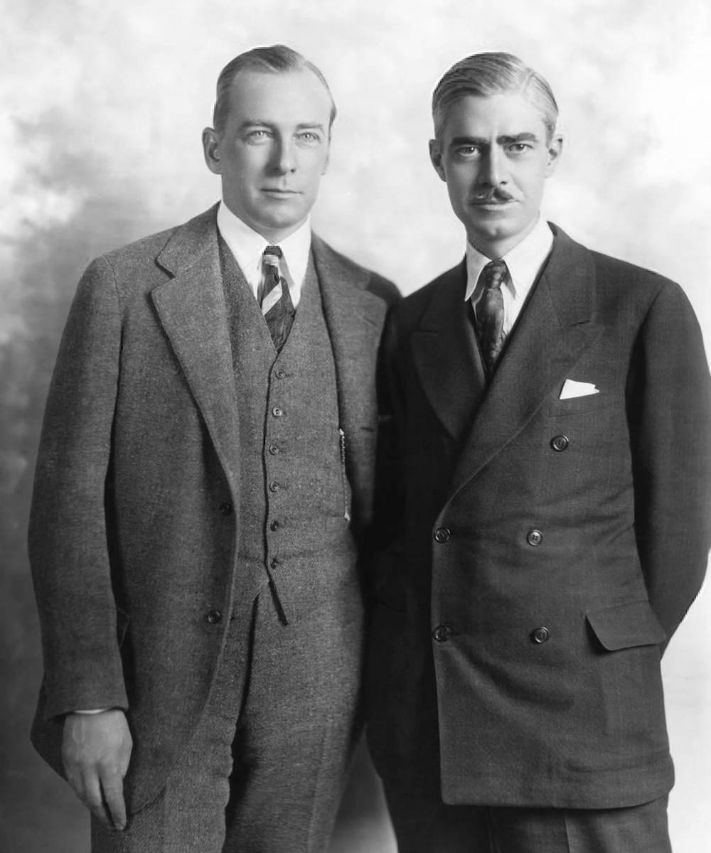 Photograph of George Abbott and Philip Dunning Caption reads as follows:George Abbott and Philip Dunning is the decidedly happy combination that is responsible for the first world-famous drama of the cabarets, Broadway, which is now on tour